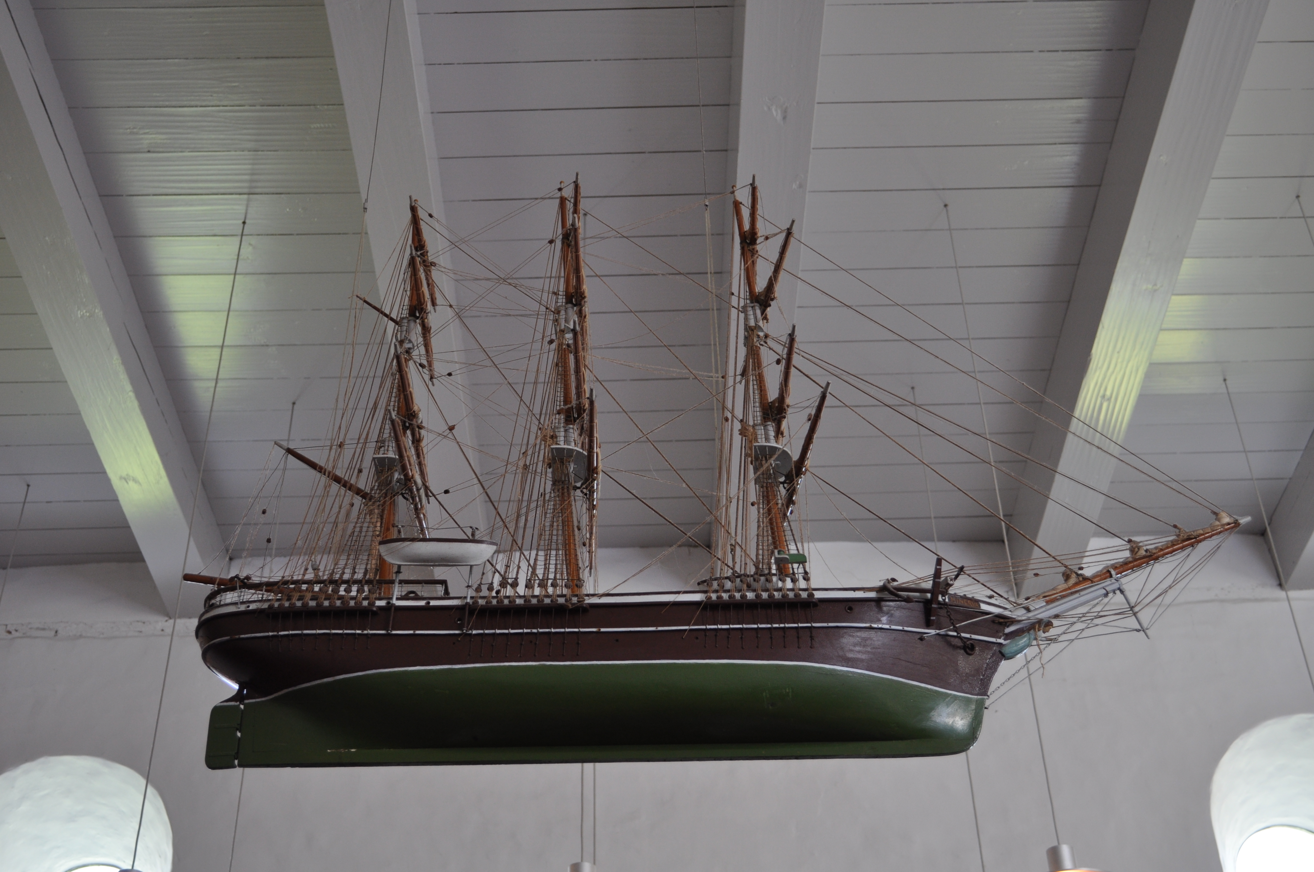 Ship model in Jelling church.